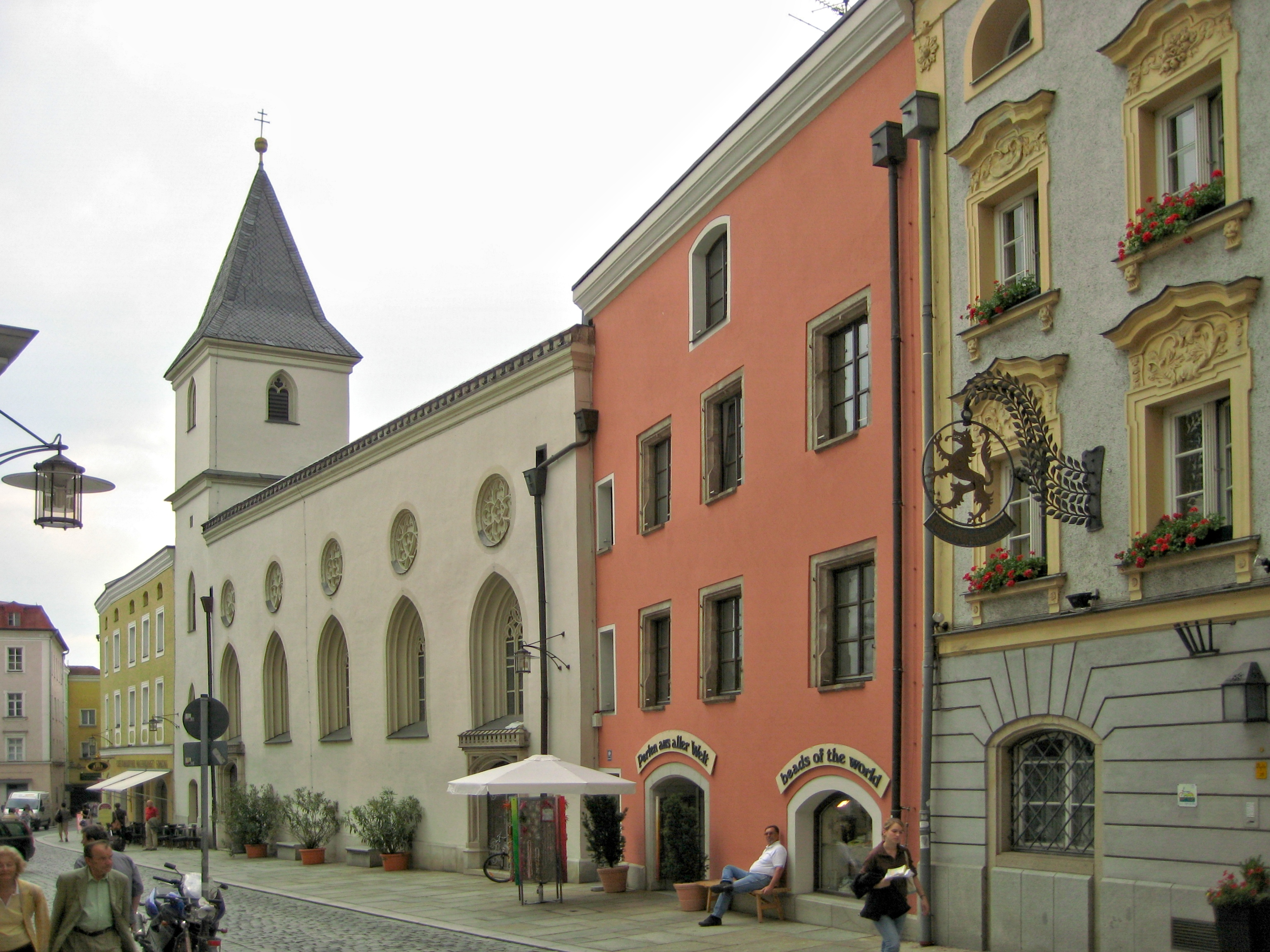 Rindermarkt, Passau